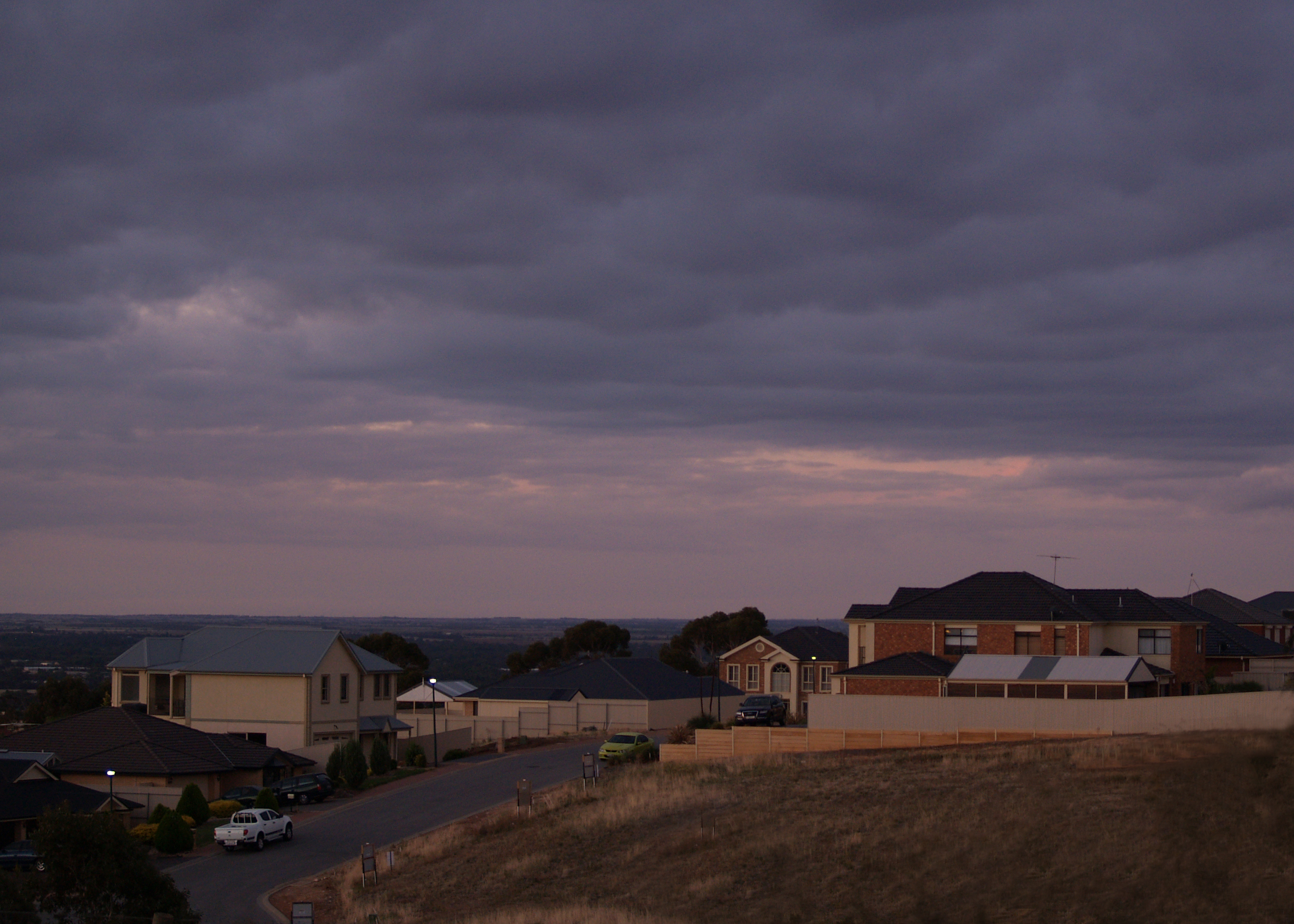 Grandview Drive, Blakeview, South Australia at twilight